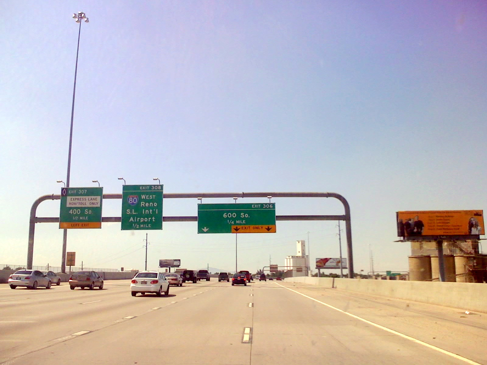 I-15 approaching the SR-269 exit